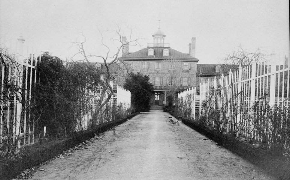 Philadelphia Lazaretto (cropped) Source description The Lazaretto, Delaware River vicinity, Essington, Delaware County, PA Front view showing administration building (trellis since demolished) (as of 1936). From photograph in Historical Society of Penna. HABS PA,23-ESTO,1-3